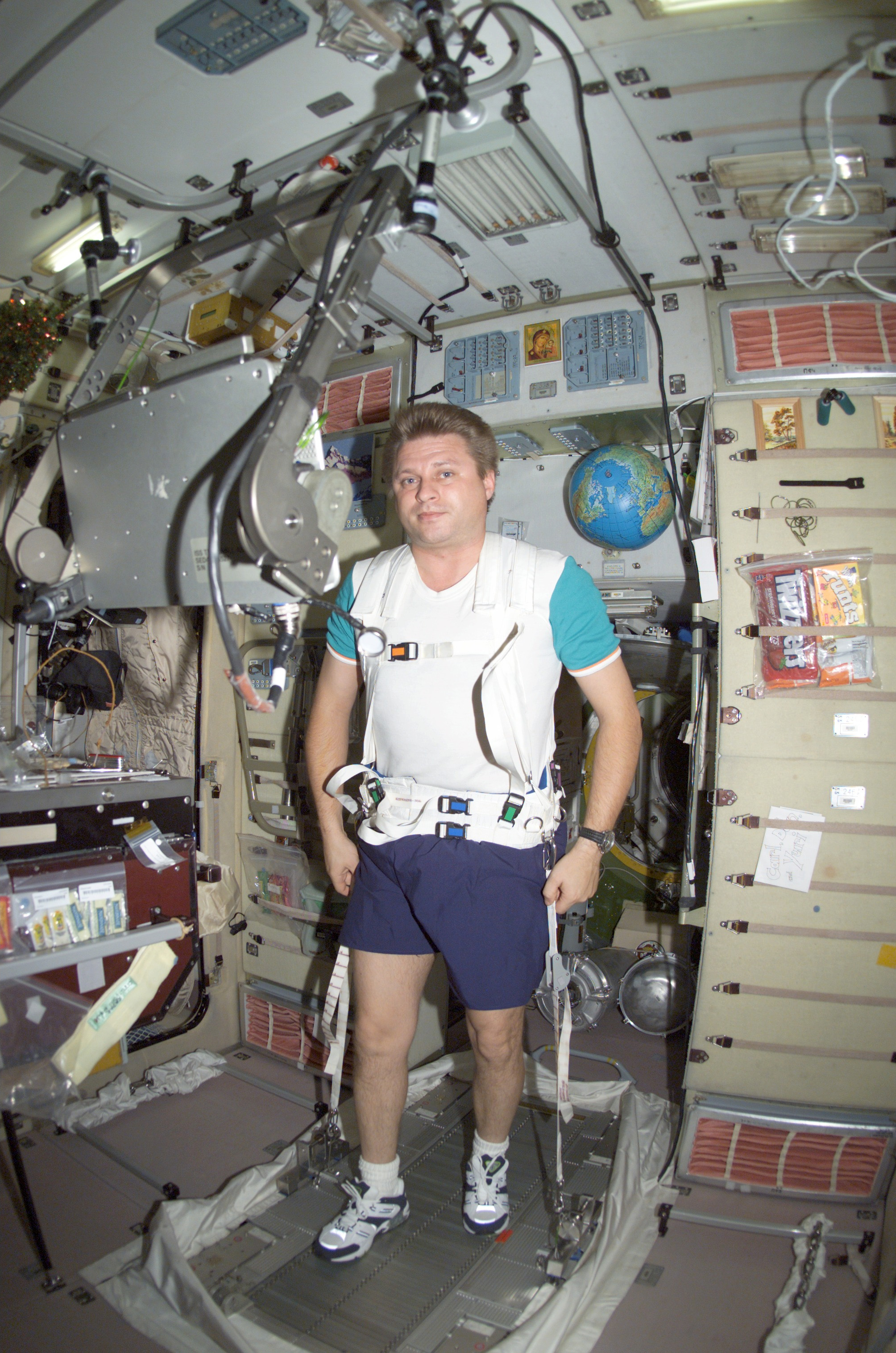 NASA Image: ISS004E6331 - Expedition 4 Commander Yury Onufrienko exercises on a treadmill in the Zvezda Service Module. Exercise is one of the ways that crew members help counteract muscle atrophy during space flight. (